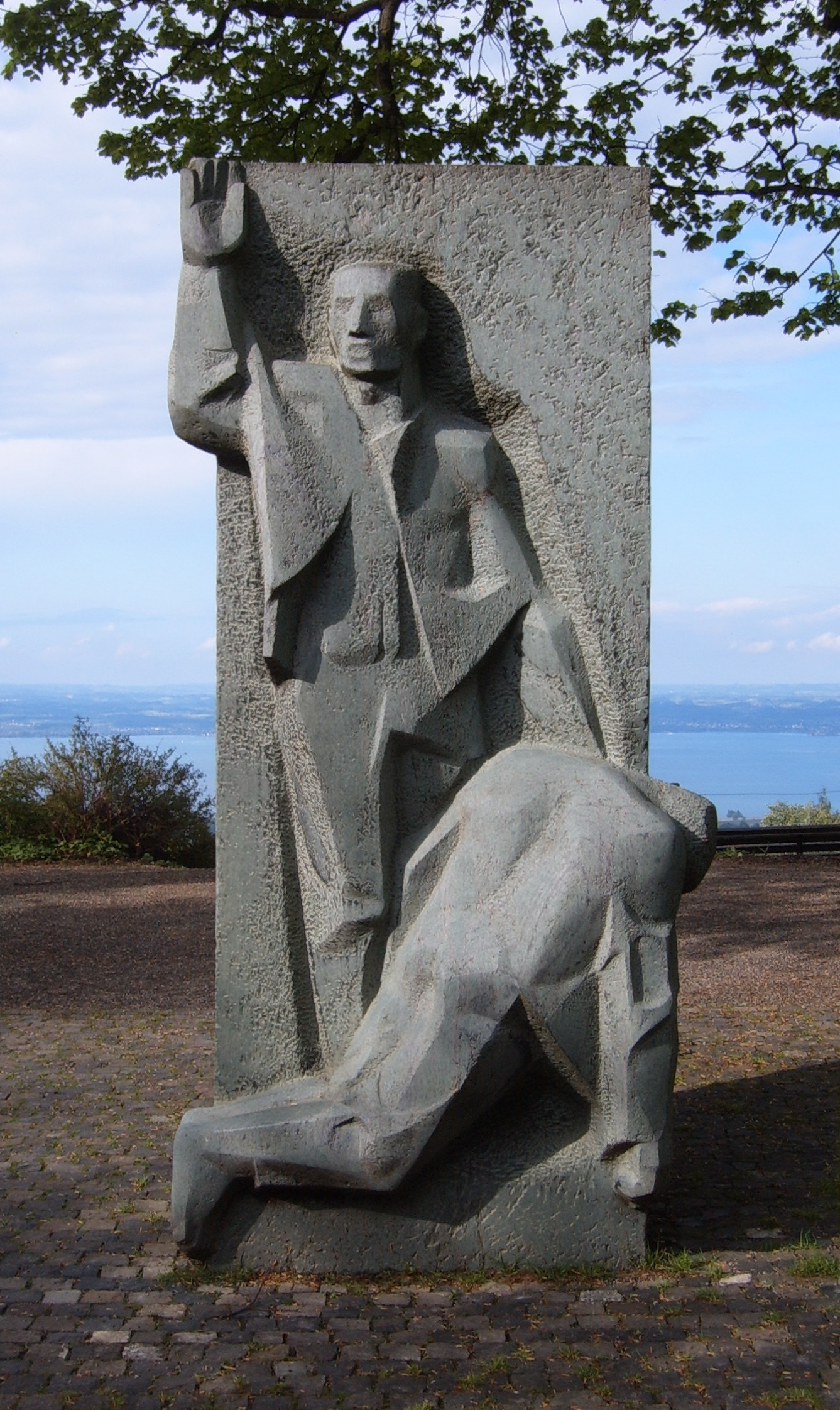 Henry Dunant memorial created by the sculptor Charlotte Germann-Jahn, Heiden (Canton of Appenzell Ausserrhoden, Switzerland)